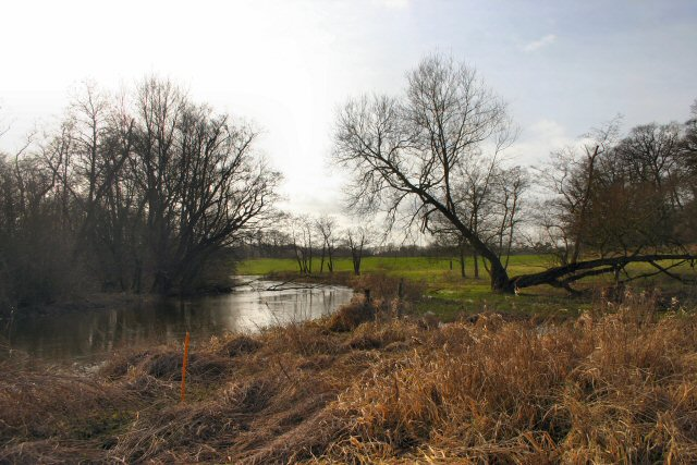 River Thet at Brettenham. Looking west from the same point as 338078.